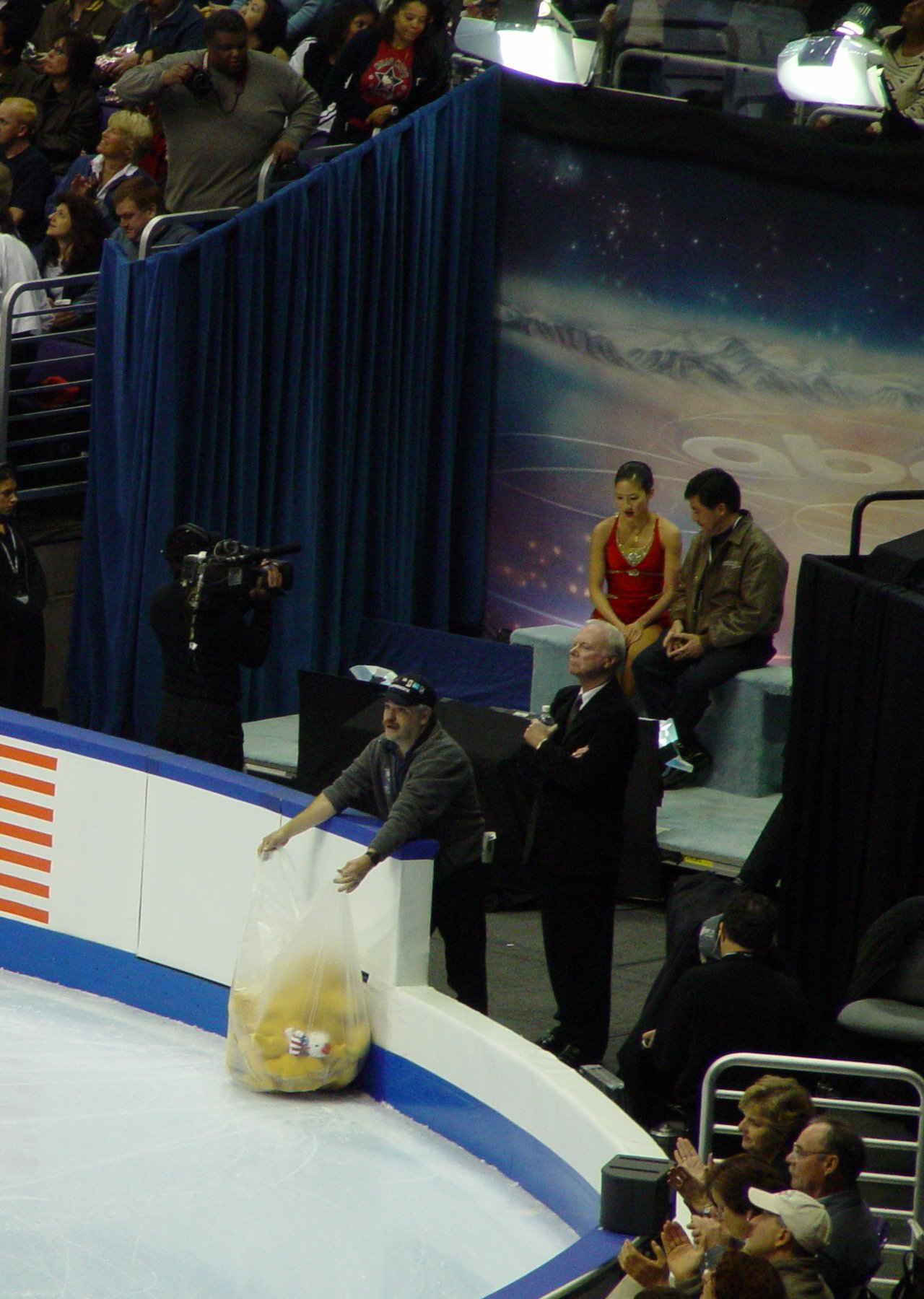 Figure skater Michelle Kwan sits in the kiss and cry area at the 2002 U.S. Figure Skating Championships. Other people in the photo include Kwan's father, who was acting as her coach at this event; Frank Carroll, coach of the next competitor; two ABC Sports TV camera operators; and a volunteer holding a bag of gifts for Kwan collected by ice sweepers.